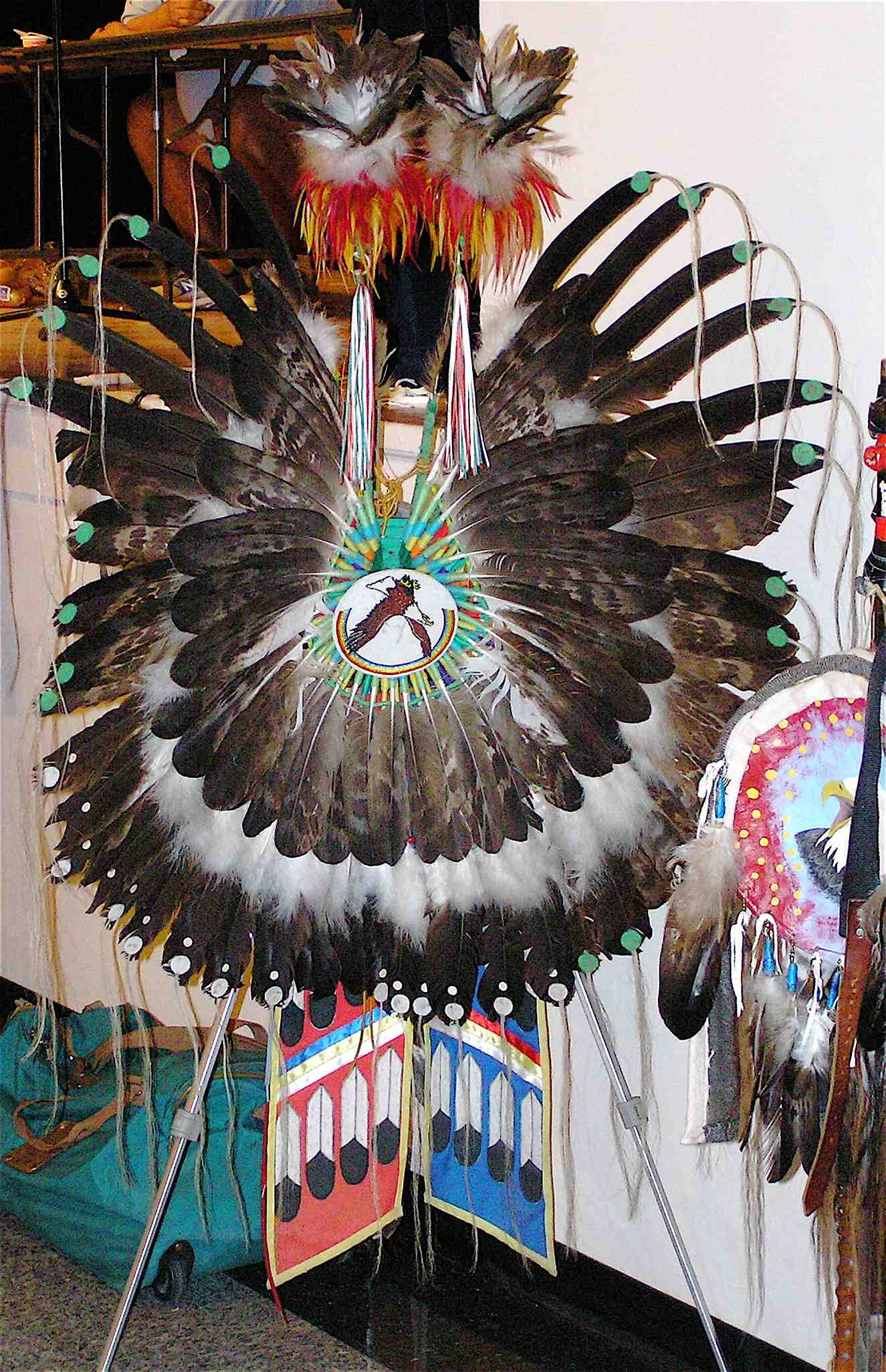 Image from Last Chance Community Pow Wow 2007, Helena, Montana